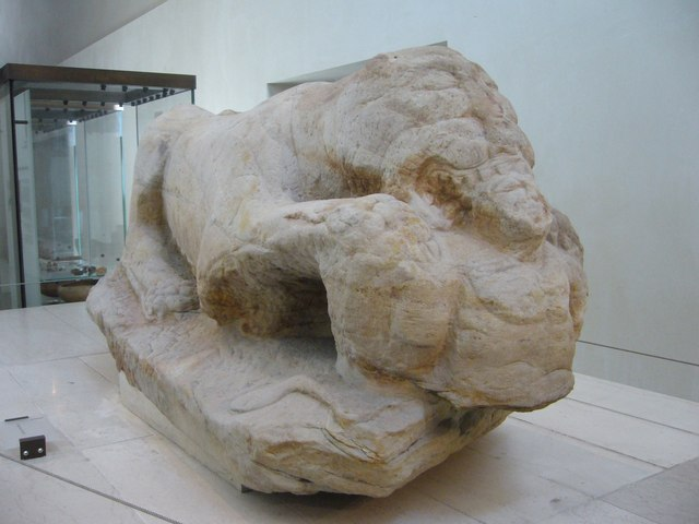 Cramond Lion - an exhibit in the Royal Museum, Chambers Street. The statue, actually a lioness, was found in the mud of the River Almond by ferryman Robert Graham in 1997, close to the site of a Roman fort, established around 140 AD. Graham received a £50,000 reward for recovering one of the most important Roman finds in Scotland. It took two years under controlled conditions before it was dried out and could be displayed.